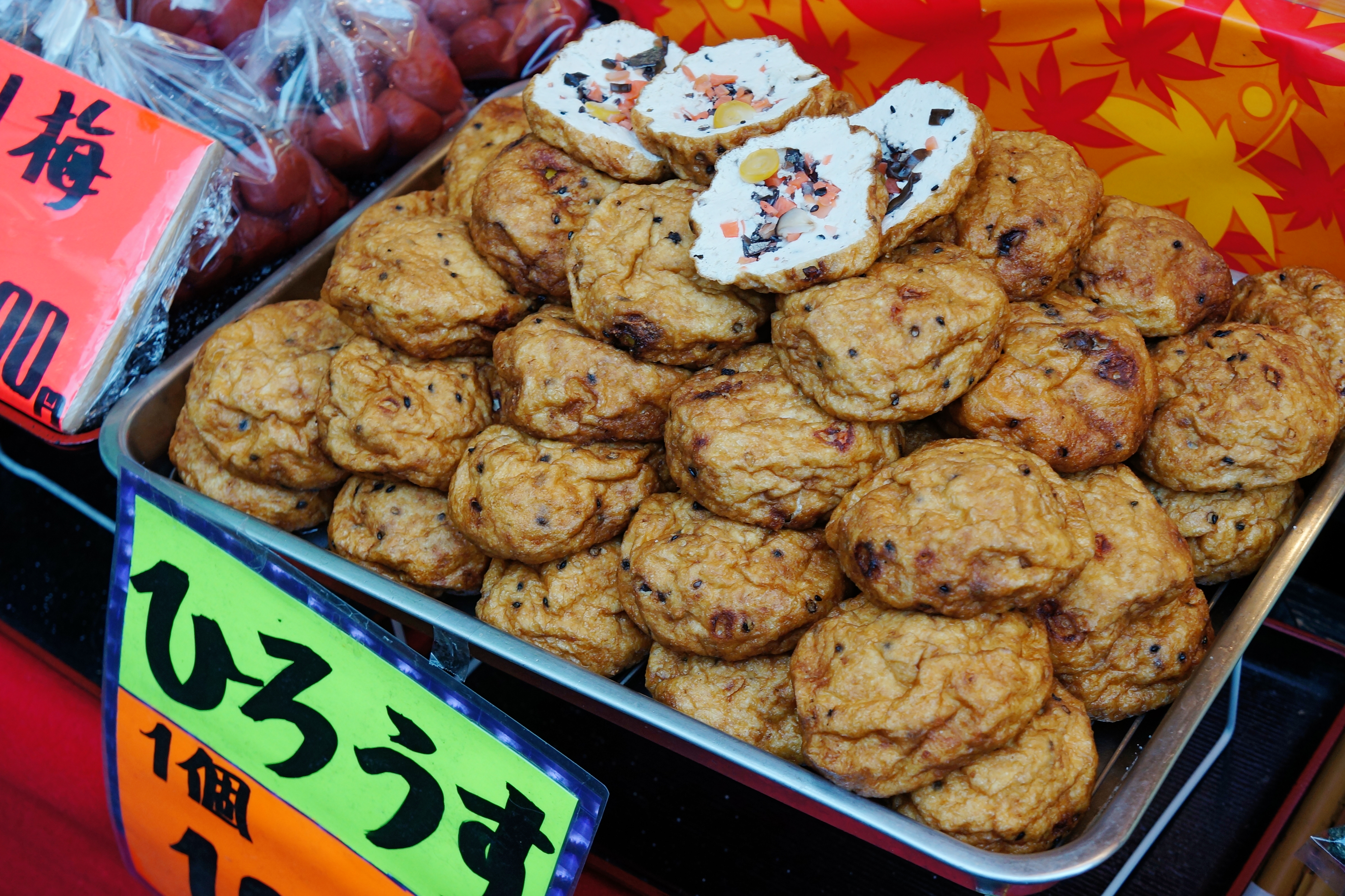 At neighborhood of Ishikiri Tsurugiya-jinja in Higashiosaka, Osaka prefecture, Japan